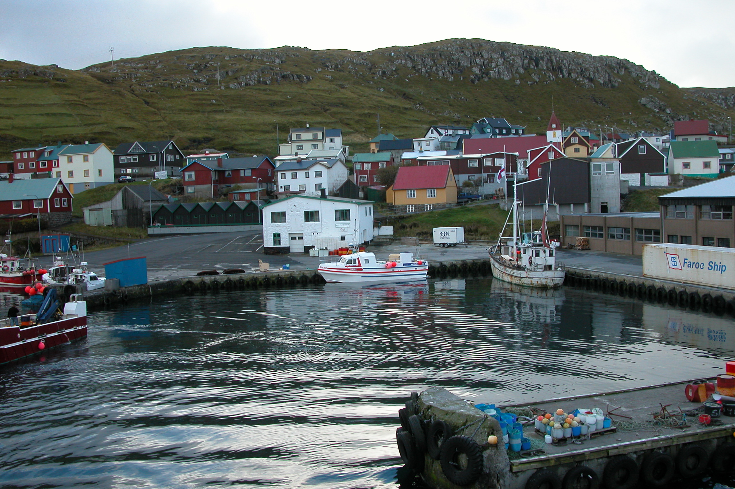 Harbour of Skopun, Sandoy, Faroe Islands